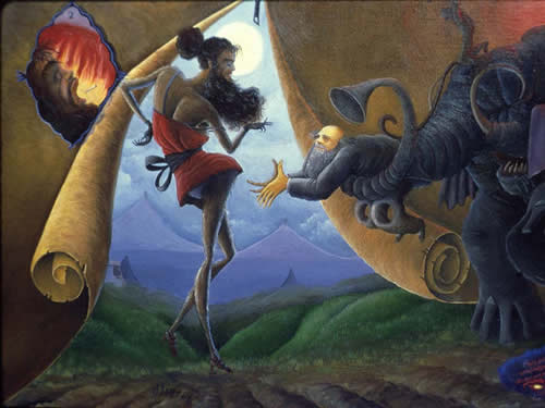 Charles Darwin meets his missing-link-messiah at the circus. The bearded lady is unmoved by all the fuss, until the apocalypse. The elephant transforms into a temple.